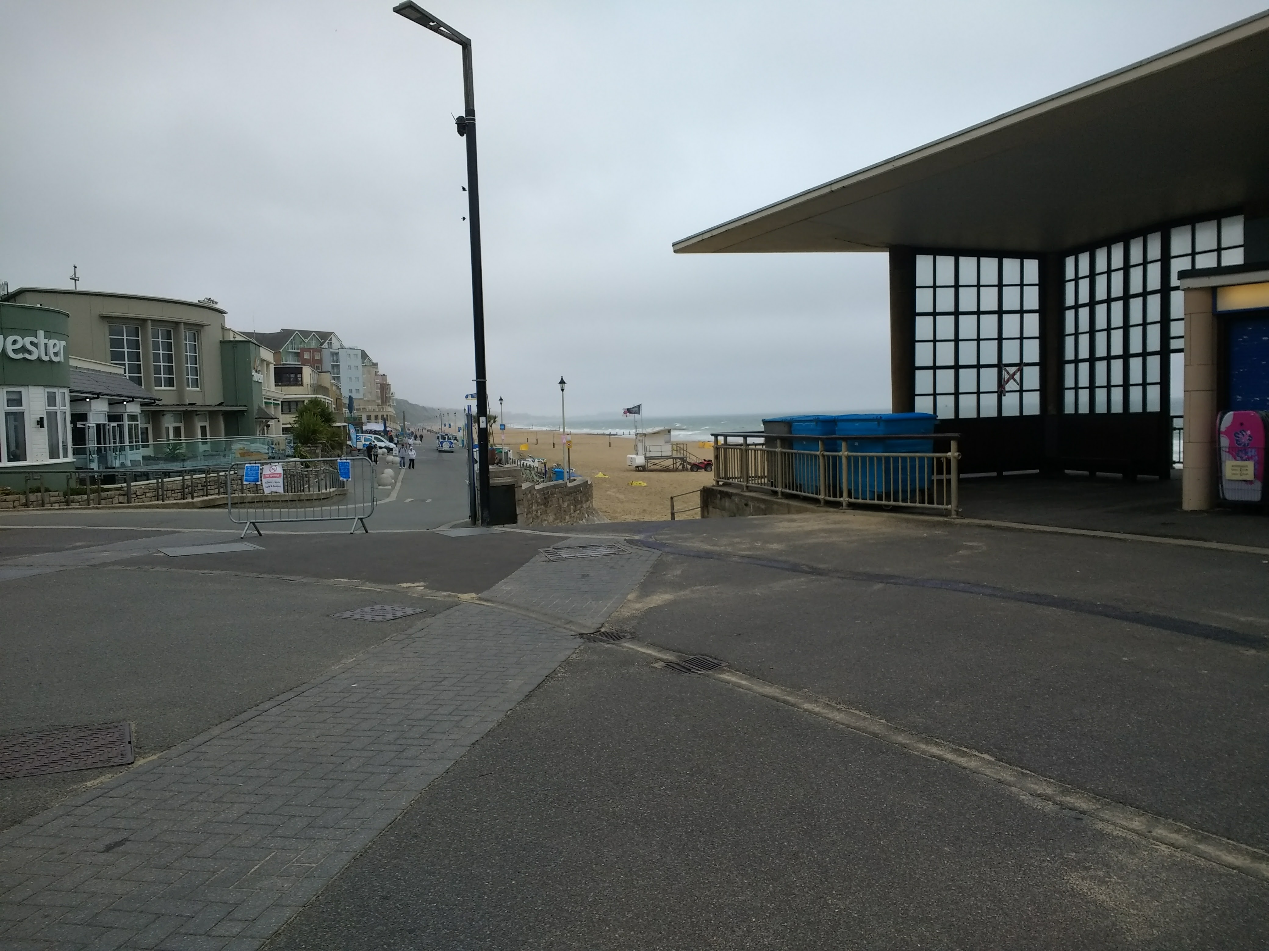 View near the entrance to the pier, looking towards the beach in the direction of Southbourne.